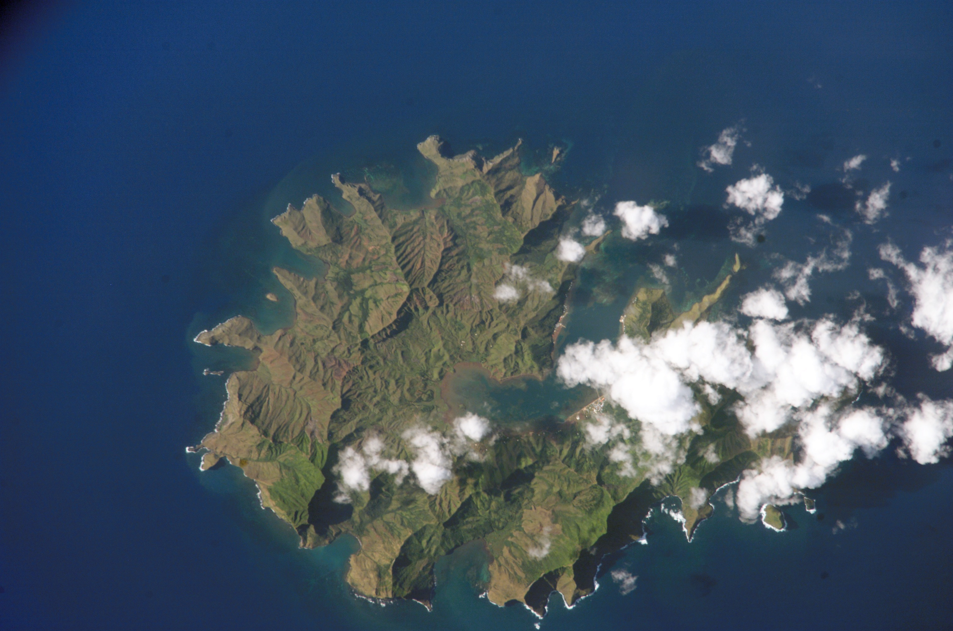 NASA Astronaut Image of Rapa Iti (Austral Islands, French Polynesia) in the Pacific Ocean